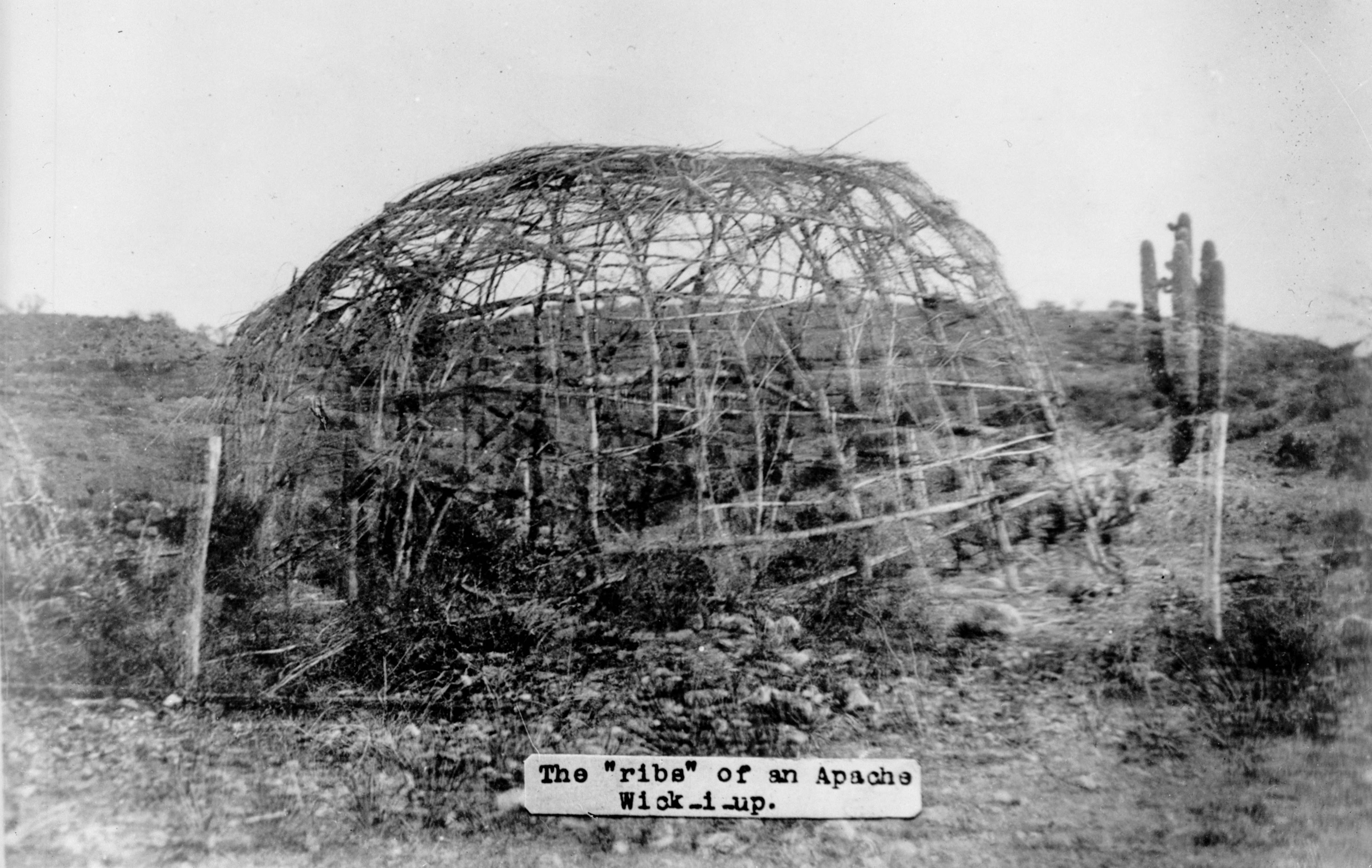 View of a Native American Apache wickiup branch framework, probably in Arizona, shows fence posts and a saguaro cactus.